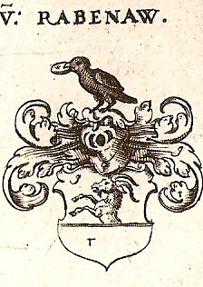 Coat of arms of the german family von Rabenau